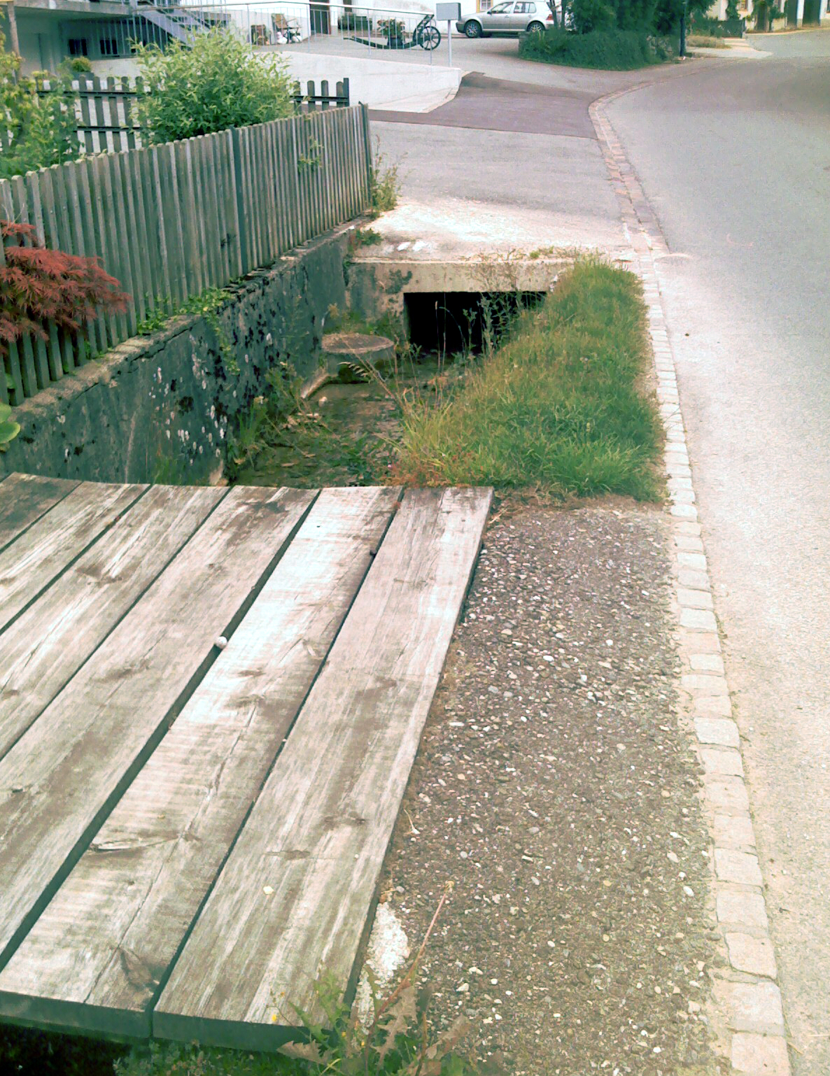 Source of Ergolz at Oltingen, canton of Basel-Country, SwitzerlandEsperanto: Fonto de Ergolz en Bazelo-Kampara, Kantono Zuriko, Svislando